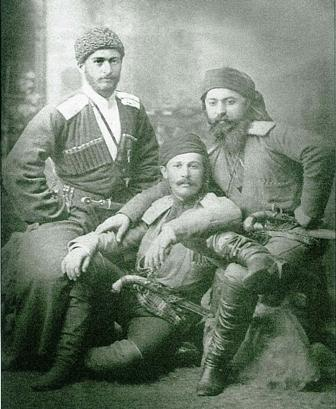 adjarians in traditional clothes